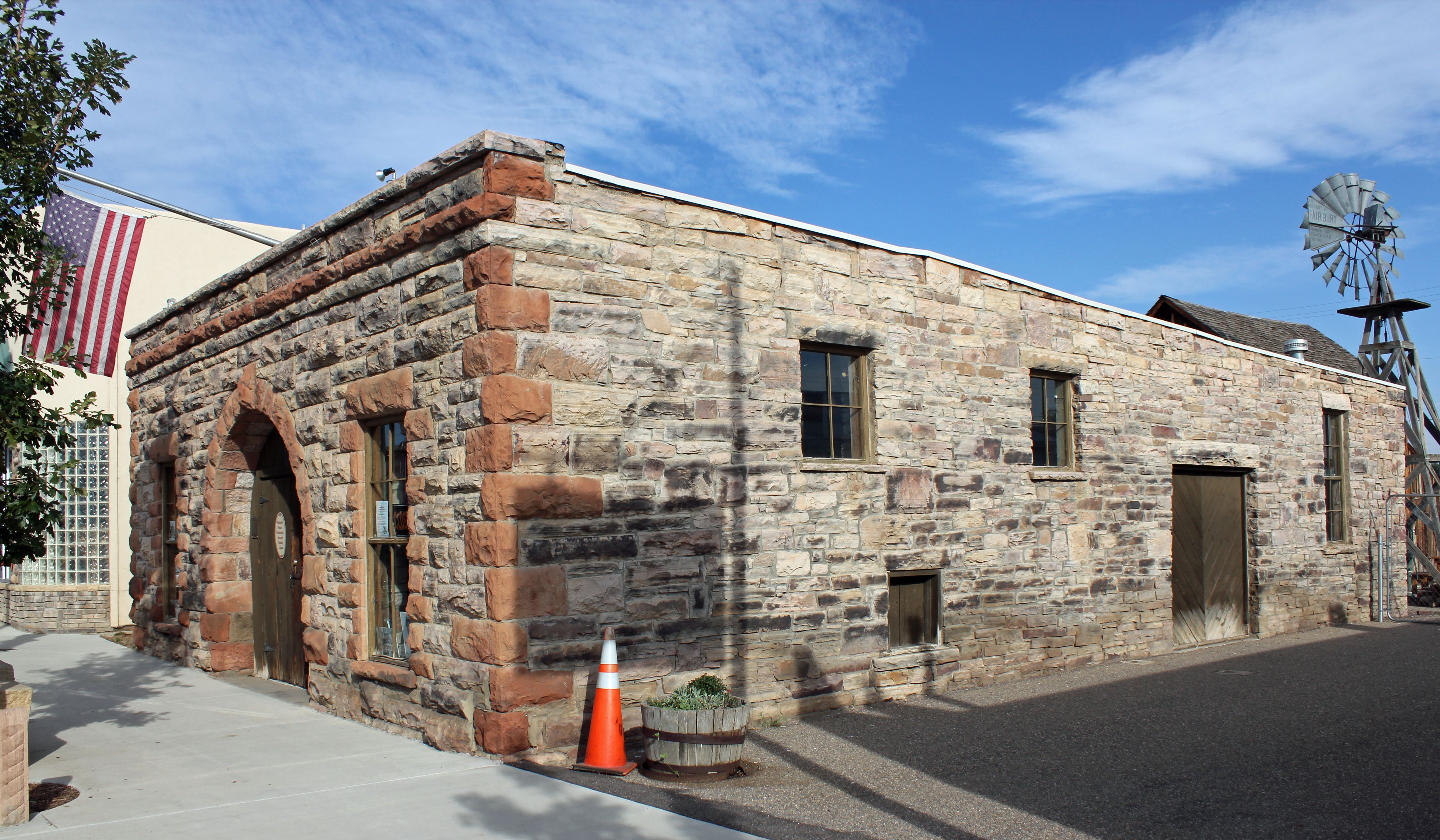 The Bimson Blacksmith Shop, located at 228 Mountain Avenue in Berthoud, Colorado. The property, which now houses the Little Thompson Valley Pioneer Museum, is listed on the National Register of Historic Places.